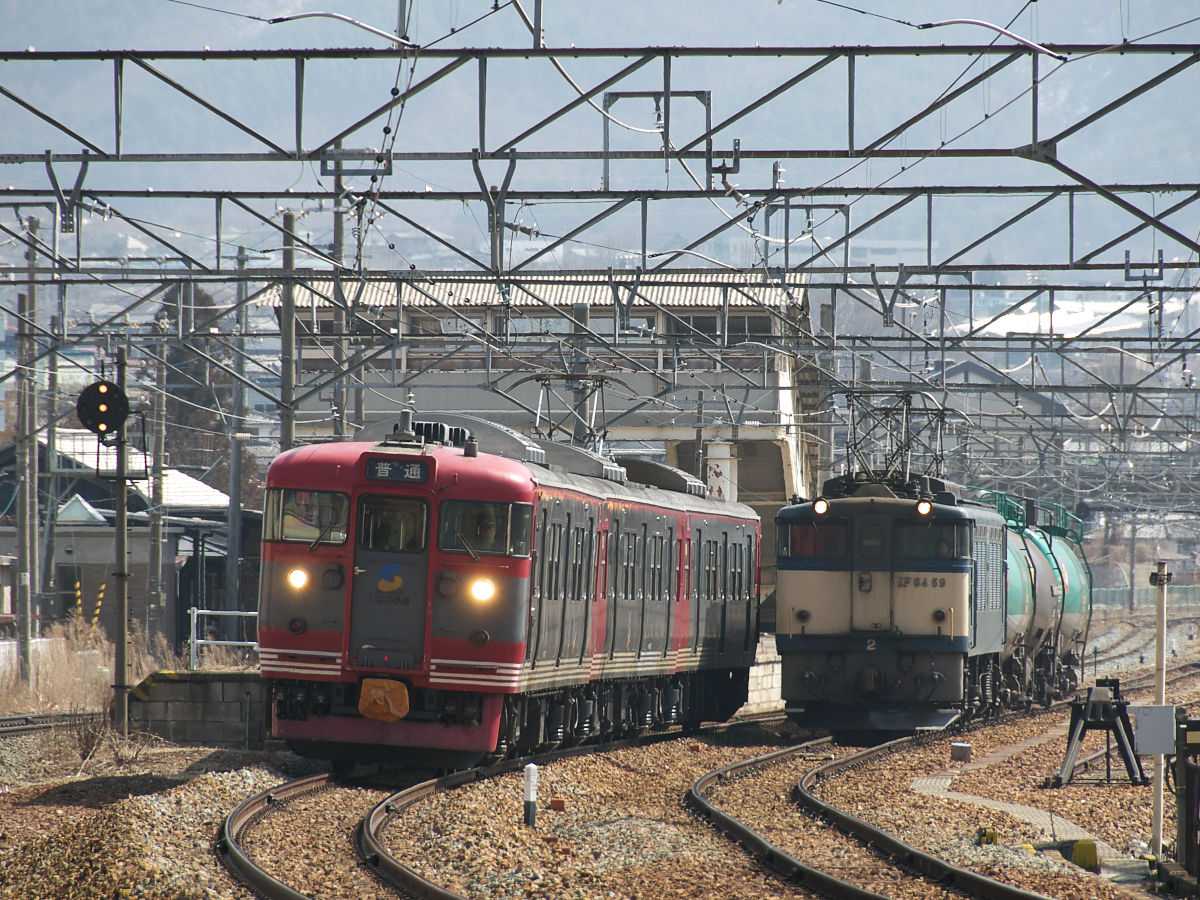 A Shinano Railway 115 series EMU and and a JR Freight Class EF64 electric locomotive on a freight service at Sakaki Station